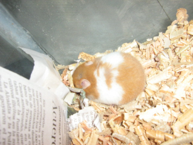 Hamster